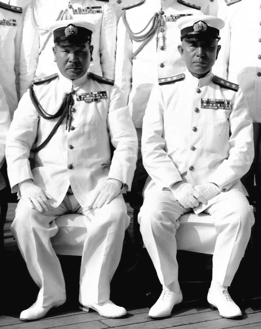 Shigeru Fukudome and Mineichi Koga, Chief-of-Staff and Commander-in-Chief of the Combined Fleet.